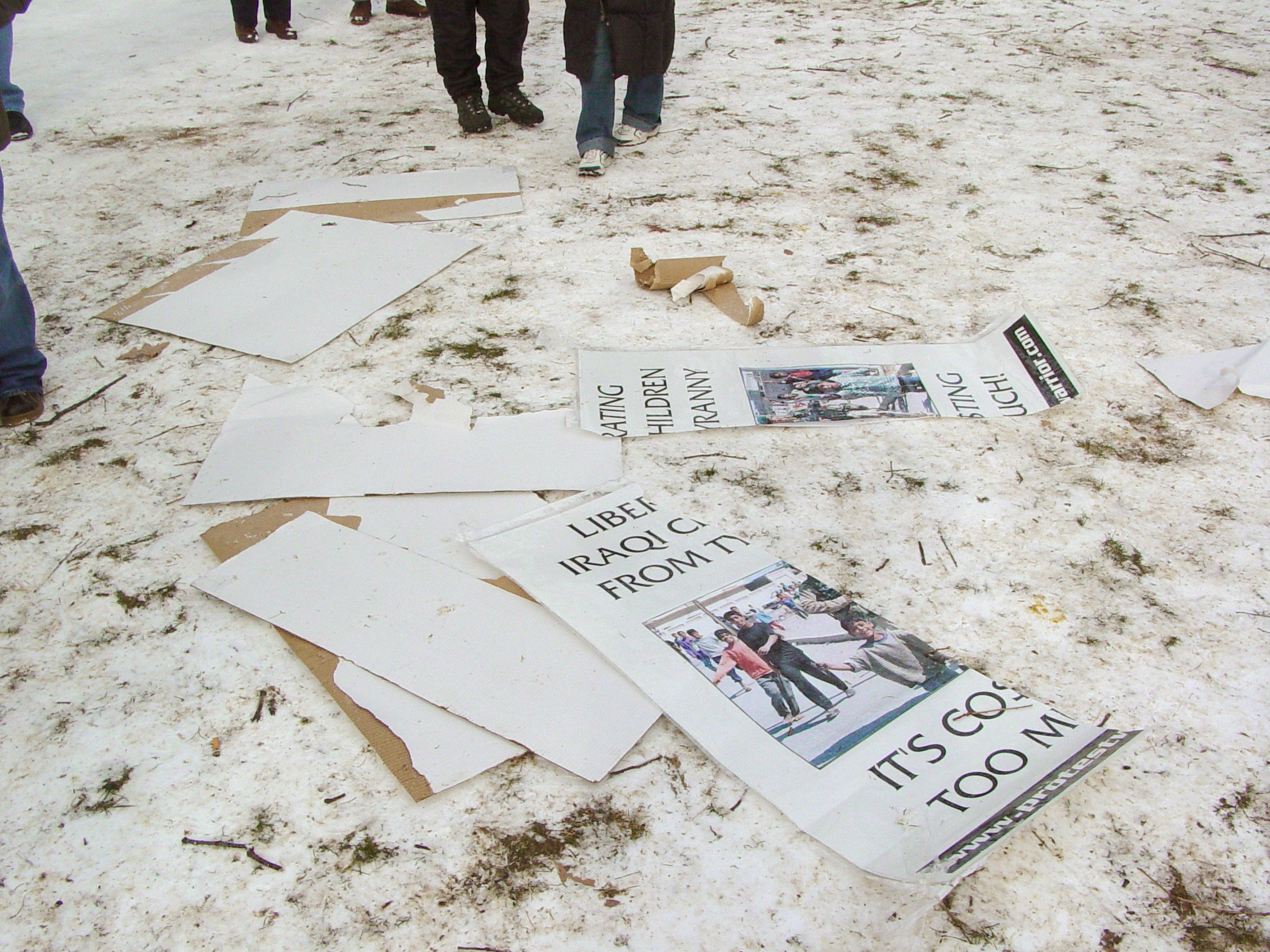 Destroyed Protest Warrior signs on the ground in Malcolm X Park at the January 20, 2005 counter-inaugural protest in Washington DC. Photo by Ben Schumin.